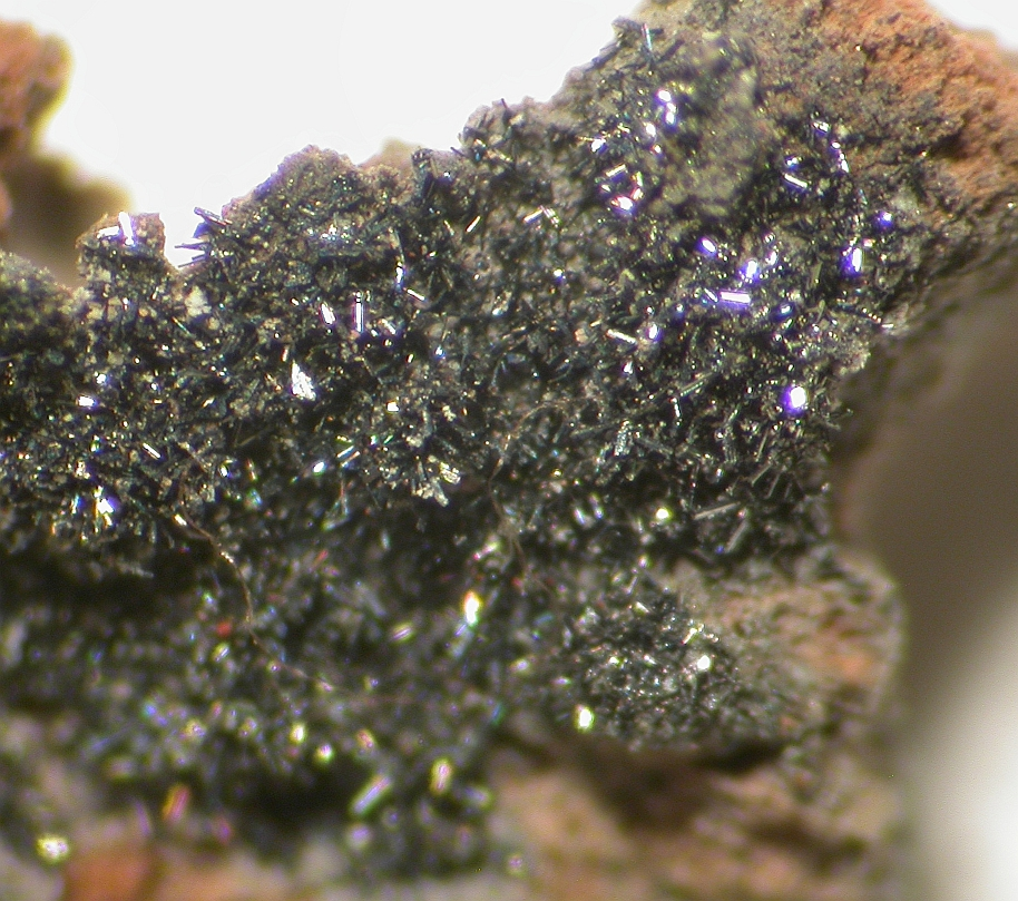 Tazieffite Locality: Mutnovsky volcano, Kamchatka Oblast', Far-Eastern Region, Russia Field of view 3 mm